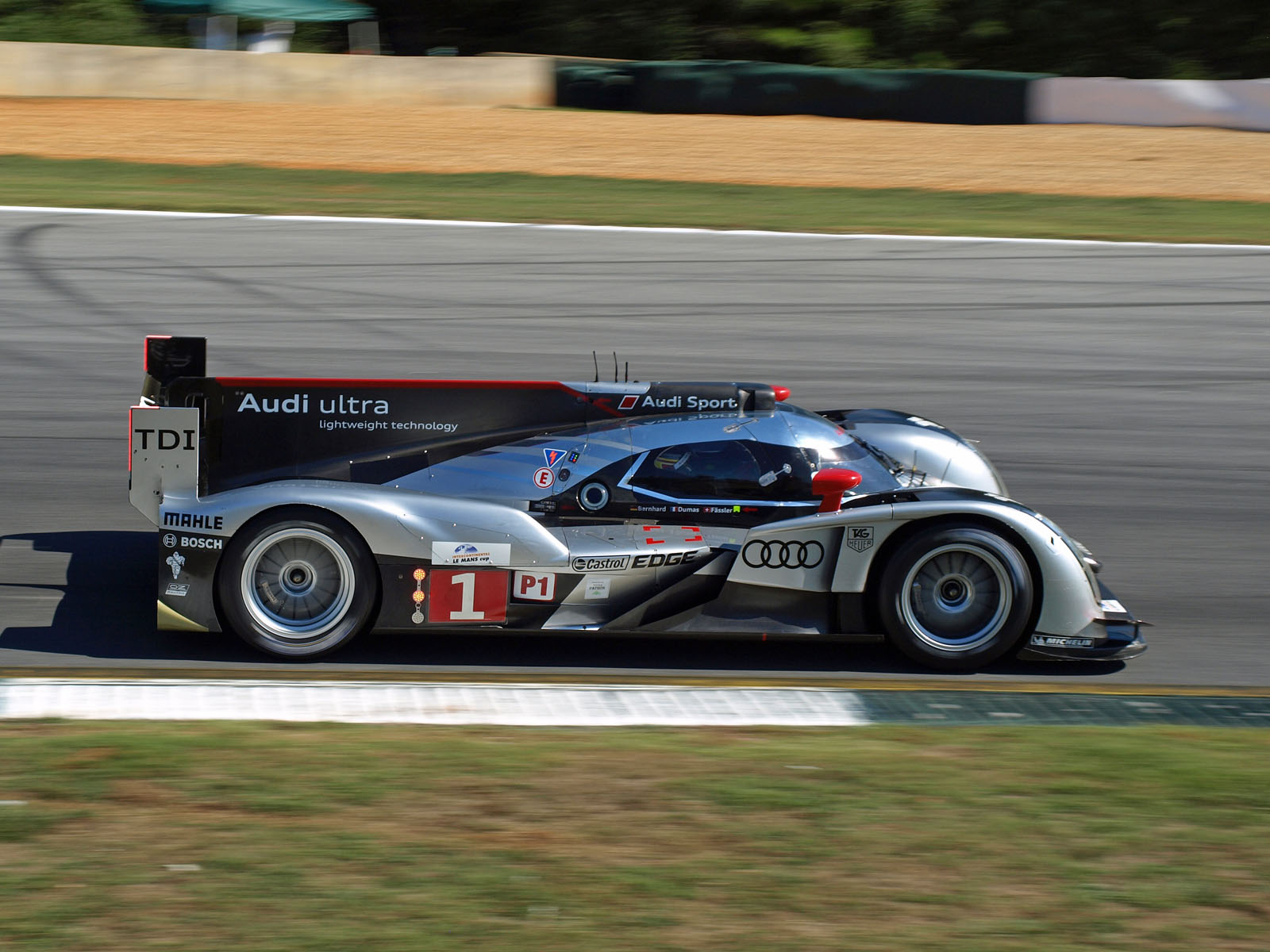 Timo Bernhard driving the Audi Sport Team Joest Audi R18 TDI in qualifying for the 2011 Petit Le Mans at Road Atlanta.